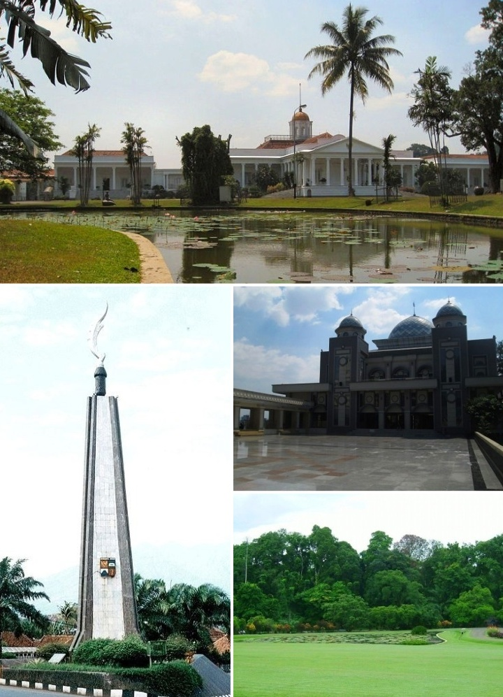 From top to bottom and from left to right: 1) Bogor Palace; 2) Kujang Monument; 3) Raya Mosque; 4) Botanical Gardens